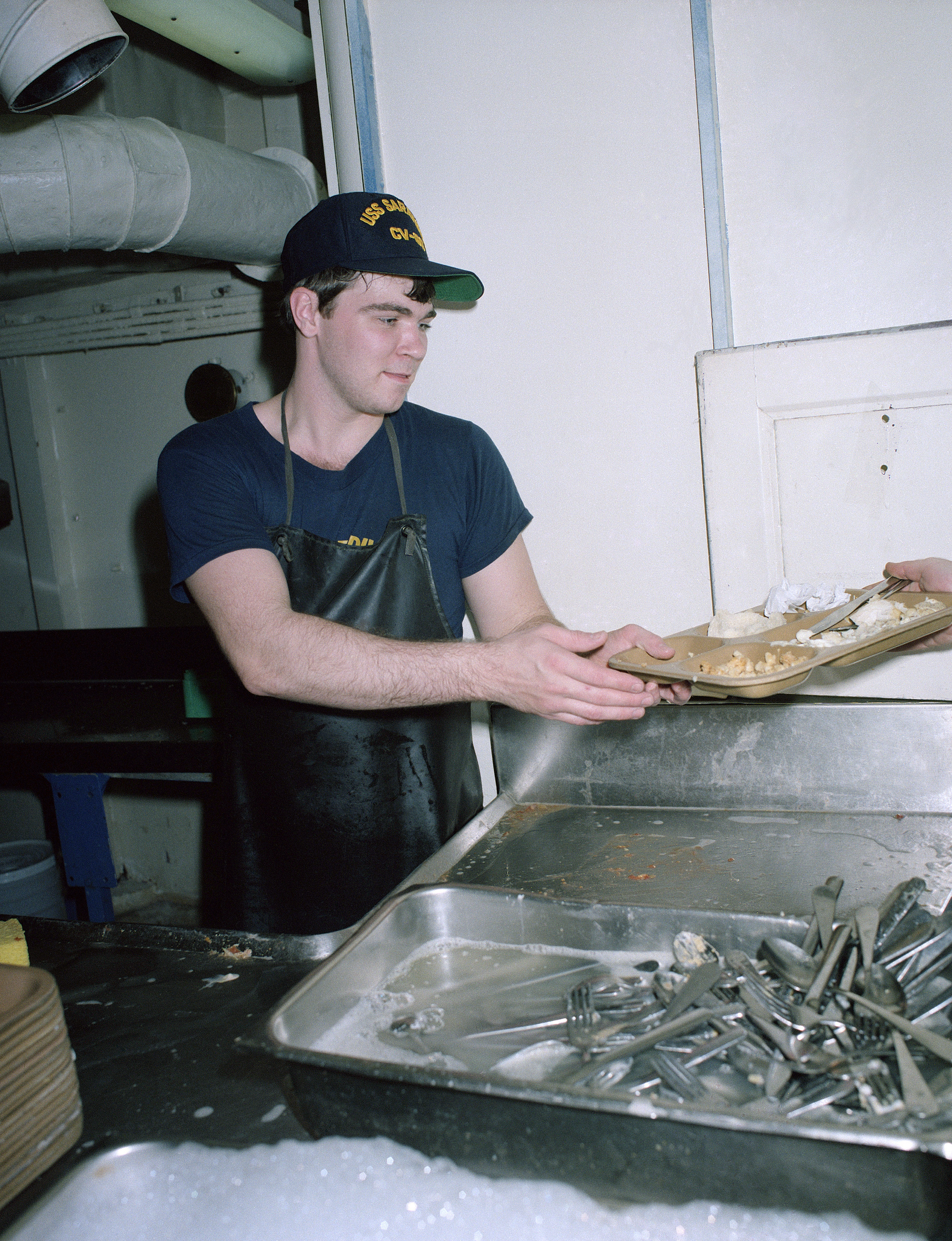 A U.S. sailor aboard the aircraft carrier USS Saratoga (CV 60) serving mess duty, or kitchen police duty.